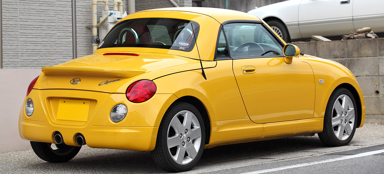 Daihatsu Copen 660